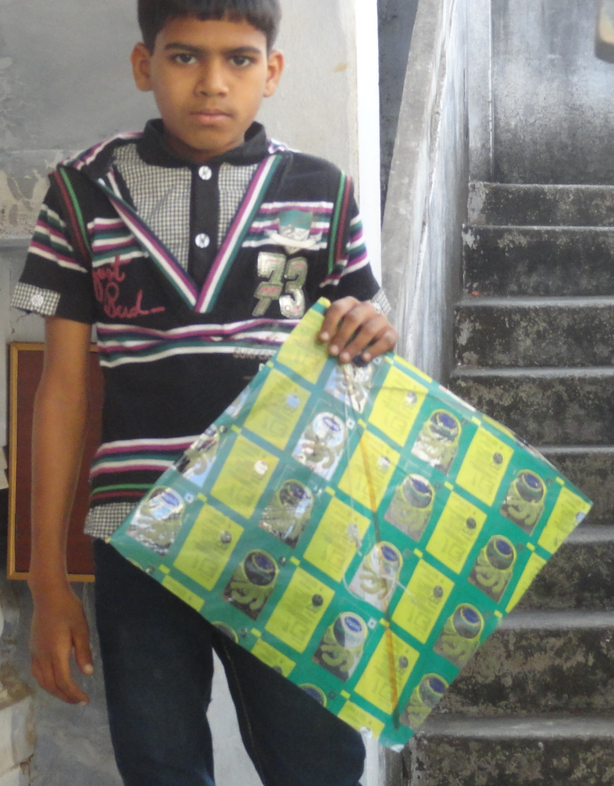 kites flying on sankranti day